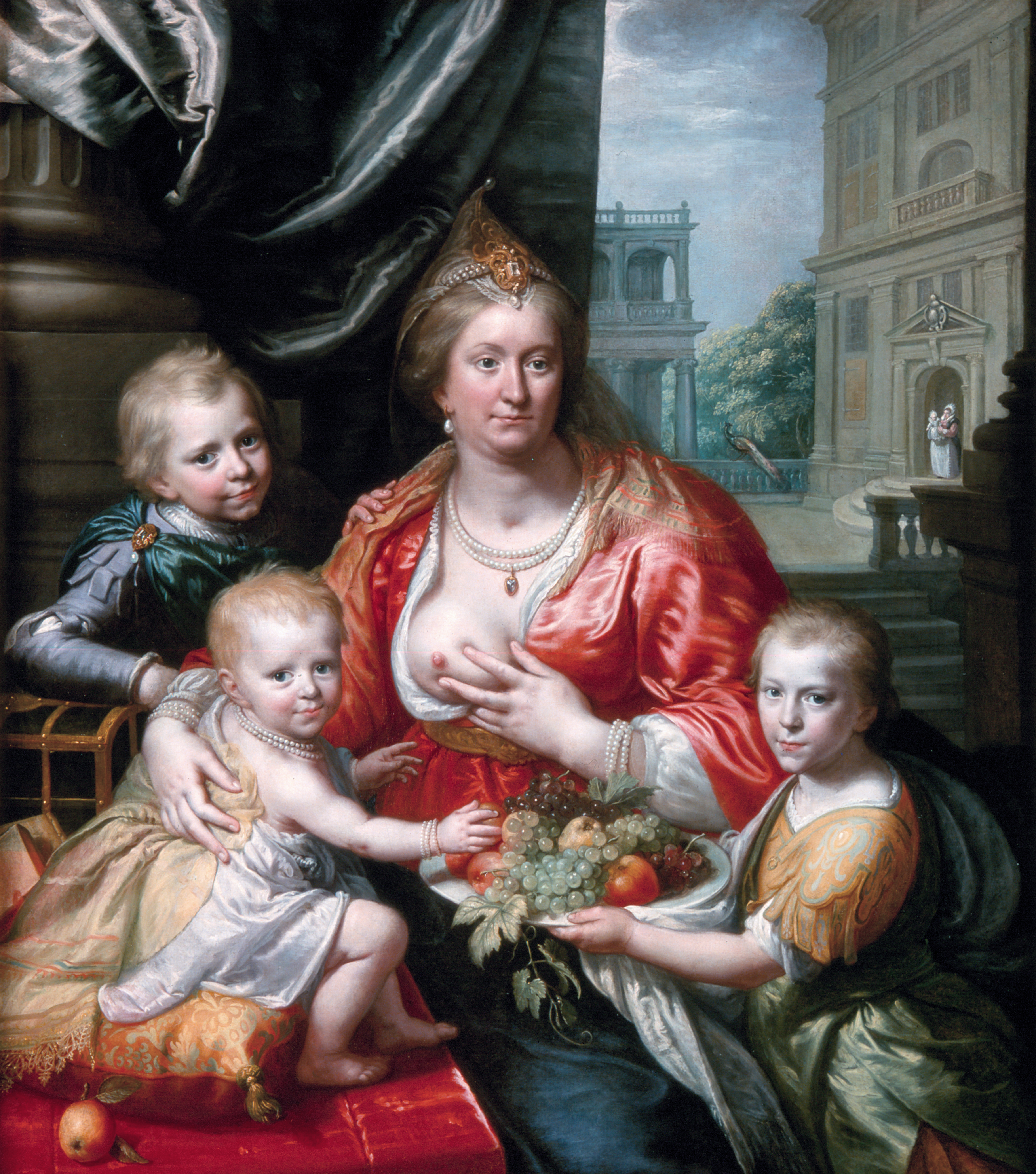 Sophia Hedwig van Brunswijk-Wolfenbuttel (1592-1642) as Caritas with her sons Hendrik Casimir I (1612-1640), Willem Frederik (1613-1664) and Maurits (1619-1628) van Nassau-Dietz oil on canvas 140 x 122 cm signed c.l.: PMoreelse / 1621